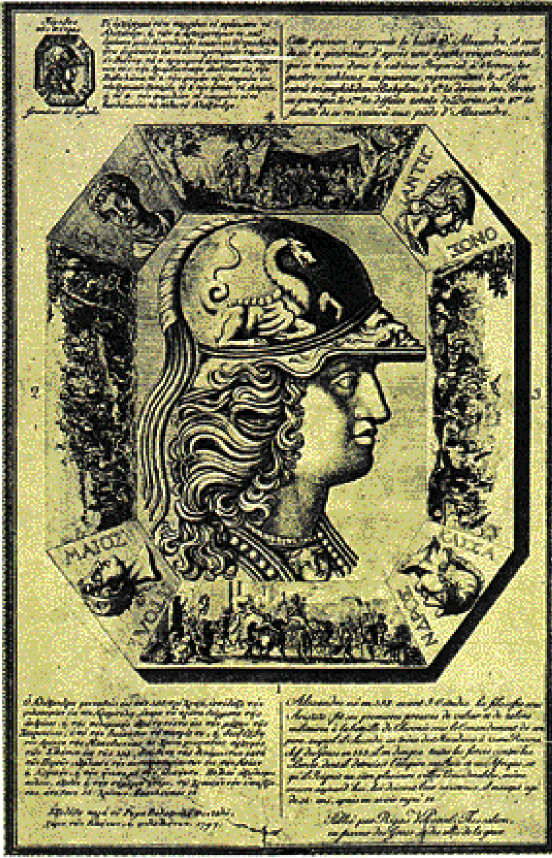 Portrait of Alexander the Great / Portrait d'Alexandre le Grand. Political pamphlet